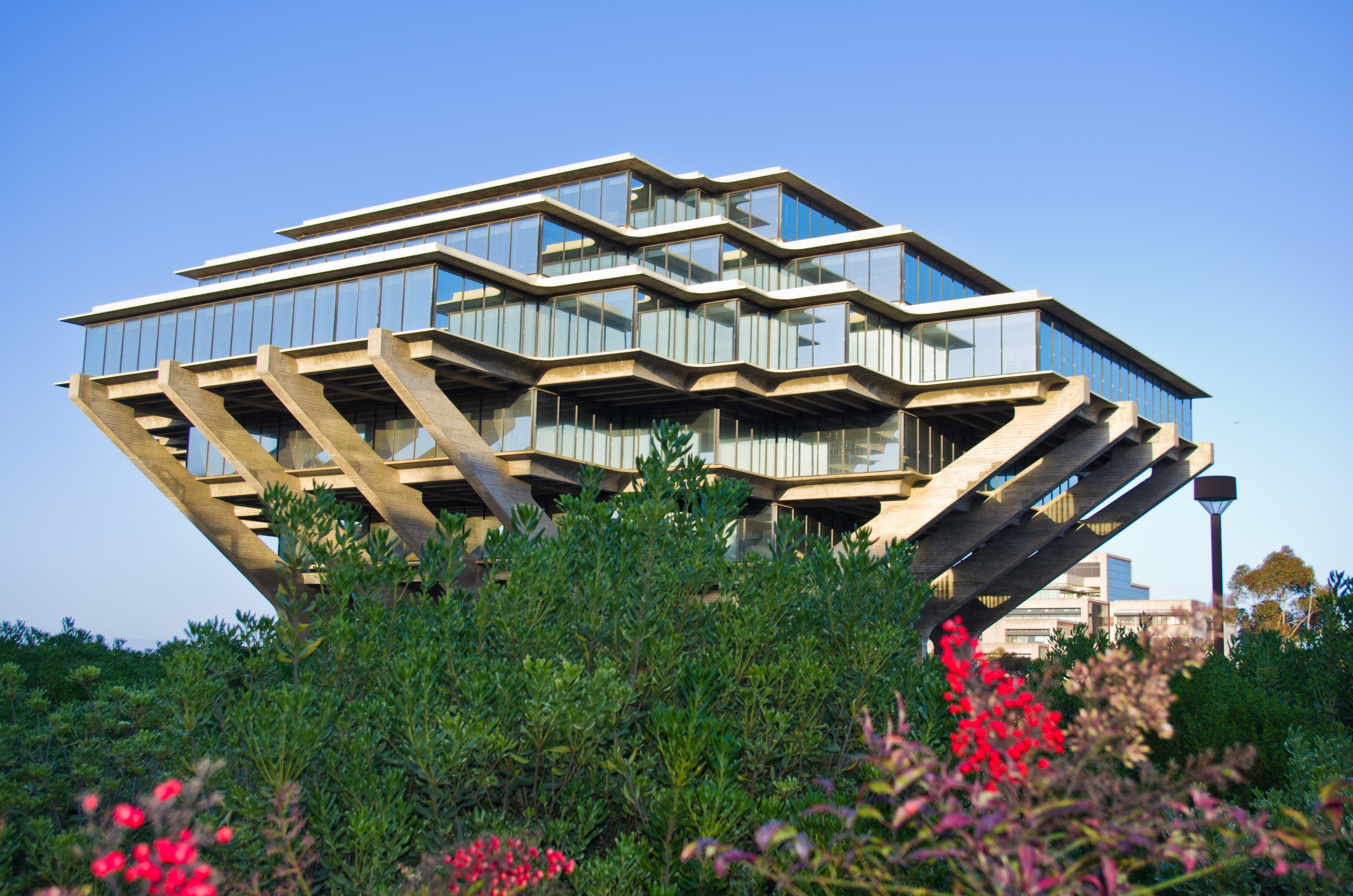 Geisel Library